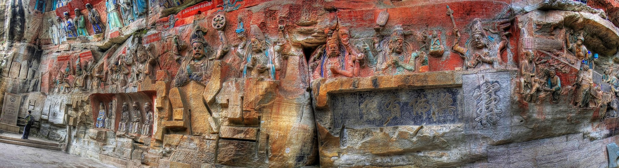 Dazu Shike Rock Carvings, 7 Beishan Rd, Dazu, Chongqing People's Republic of China by David McBride